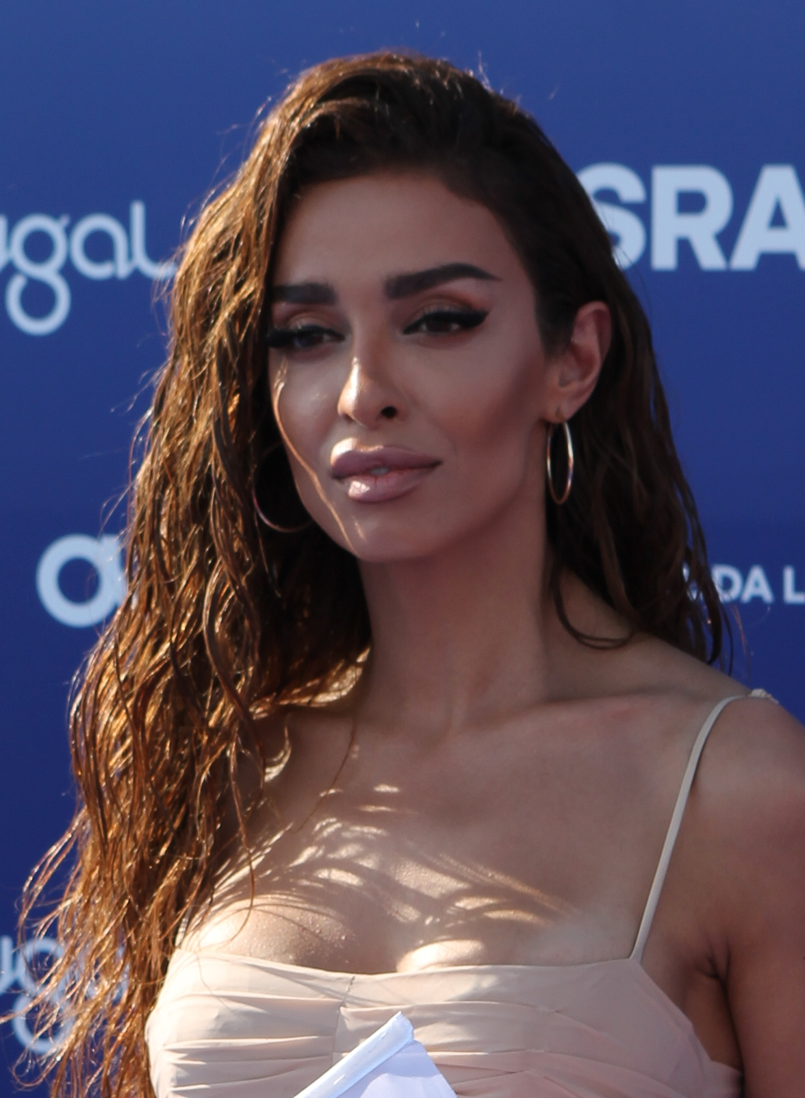 Eleni Foureira during the Eurovision Song Contest 2018 opening ceremony